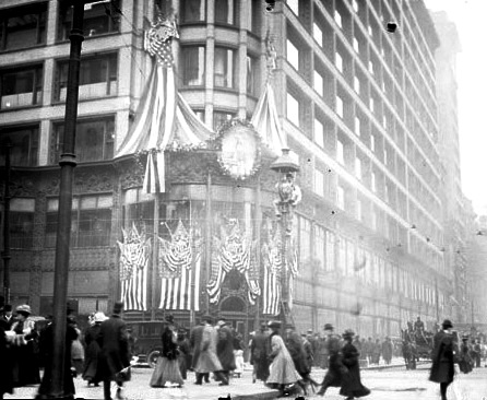 Exterior view of the Carson Pirie Scott & Co. department store building at the southeast corner of South State and East Madison Streets in the Loop community area of Chicago, Illinois, decorated with Lincoln [100th birthday] decorations of bunting and flags.